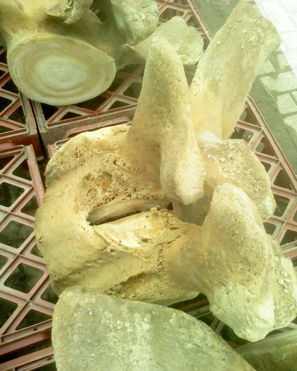 Ankilosed vertebrae North Atlantic right whale (Eubalaena glacialis) from a specimen recovered from the Thames at Bay Wharf in Greenwich.